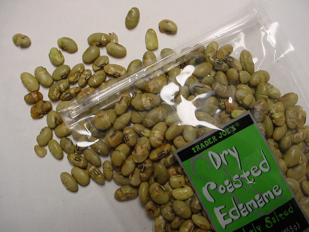 A package of toasted soybeans, manufactured and distributed by Trader Joe's. Shot taken by User:CoolFox